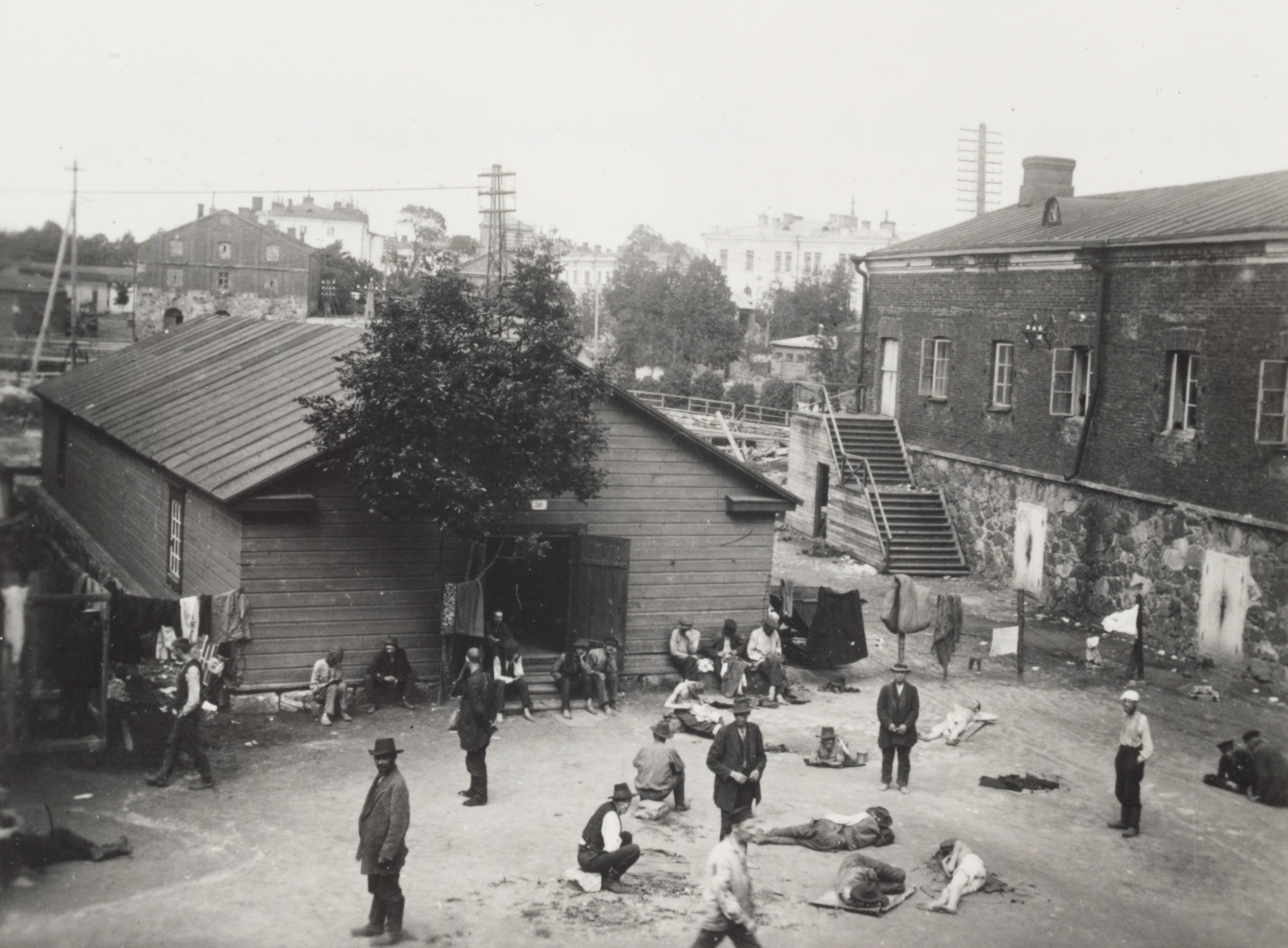 Red Guard prisoners of war at the Susisaari prison camp of Suomenlinna Fortress' IV district, the yard of the Adlerfeldt traverse, Adlerfeldt tarverse, prison garrison of the 1918 Red Guard prisoner of war camp no. 6 on the right, a shack in the middle. In the background, Eastern Mustasaari, photo taken from the road leading to the Höpken bastion. See book Suomenlinnan rakennusten historia, p. 42.